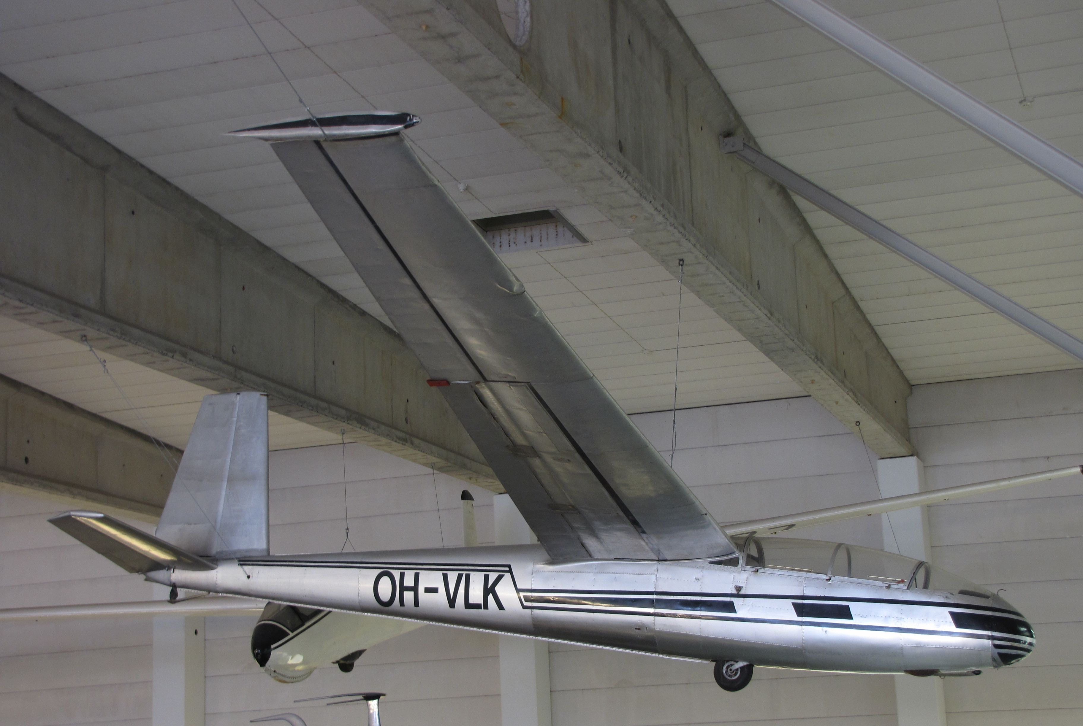 LET L-13n-10 Blanik glider in Finnish Aviation Museum. Donated by Tarto flight club in 1992, the registry "OH-VLK" is not original and this plane has never flown in Finland under this registry number. There was however an other Blanik carrying this registry number.